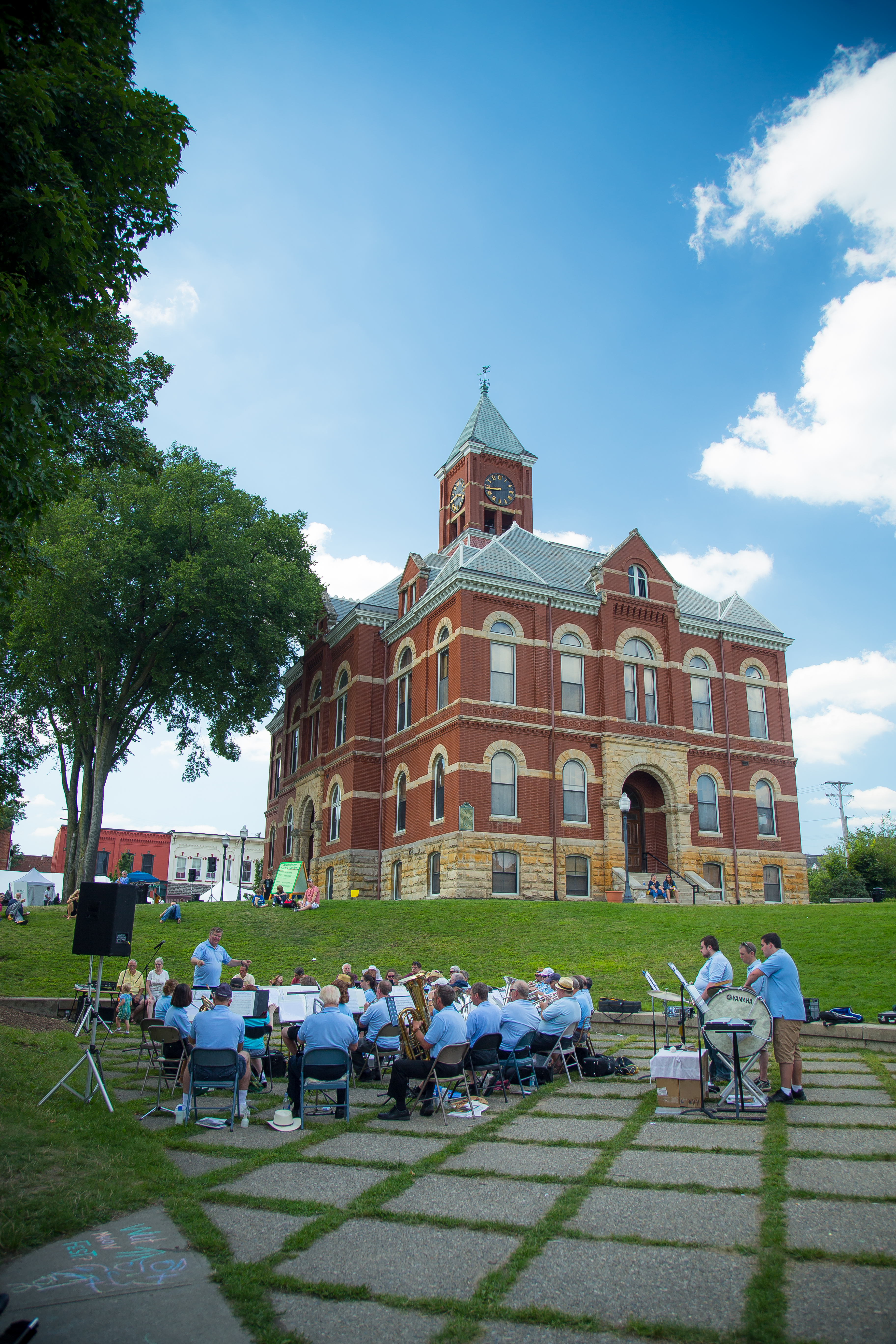 Howell court house as seen from a southeast view overlooking the Howell amphitheater during a big band performance.